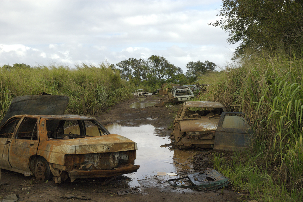 The obstructions on the road to Jaws beach in early 2006.